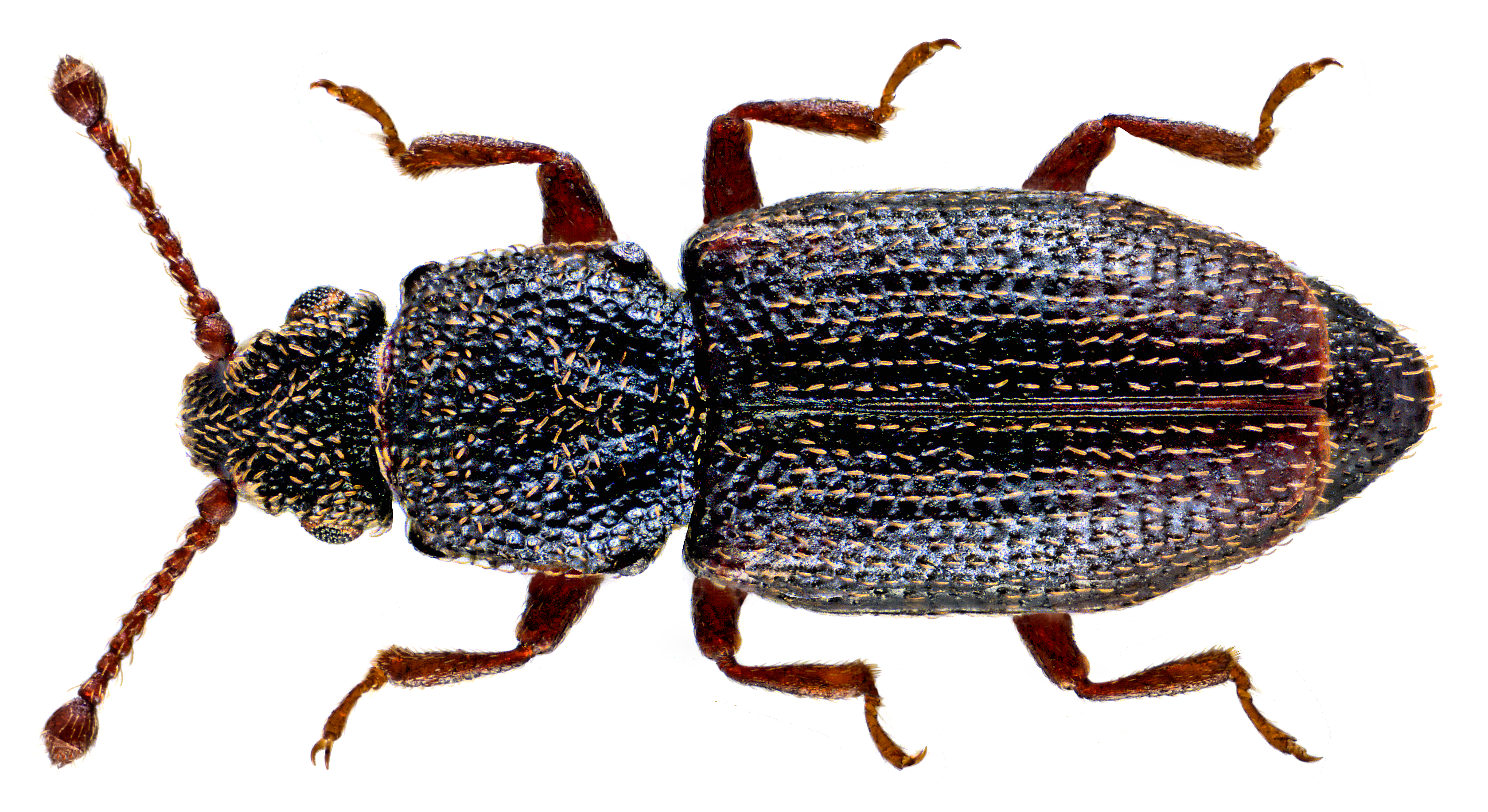 Family: Monotomidae Size: 2,3 mm (2,0-2,3 mm) Origin: Europe Ecology: under rotting plants Location: Germany, Bavaria, Upper Franconia, Selbitz, leg.det. U.Schmidt, 8.X.2005 Photo: U.Schmidt, 2014